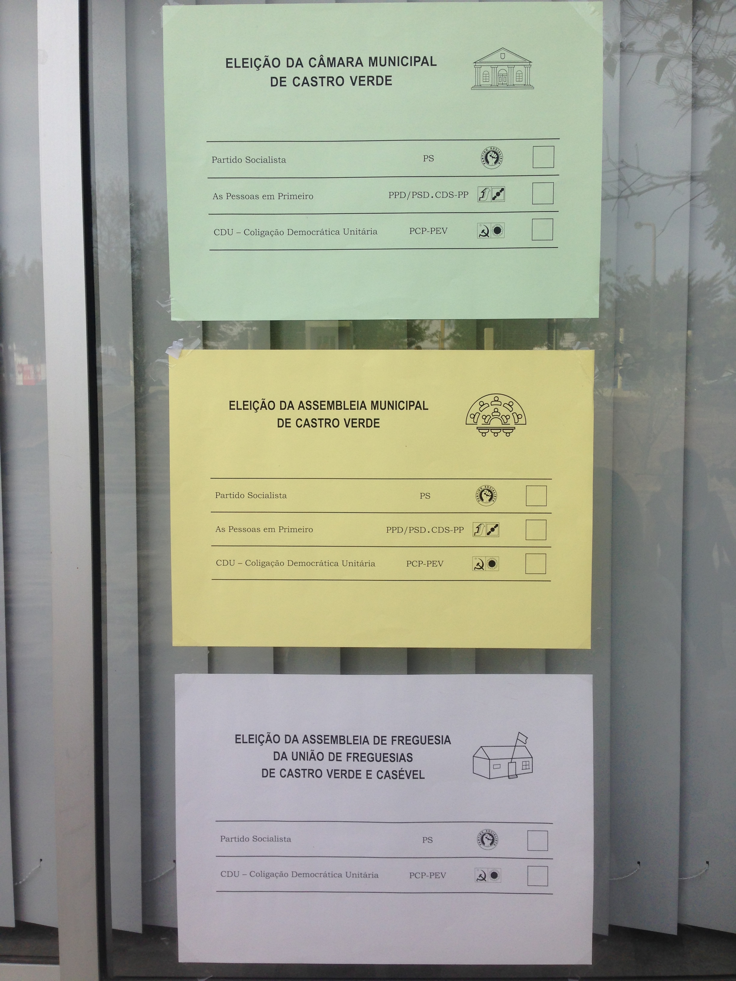 Ballots for the 2017 Portuguese local elections of 1 October (Union of Civil Parishes of Castro Verde and Casével, Castro Verde). Posted on the outside of the polling station.